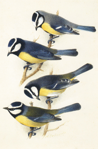 Illustration of subspecies of Blue Tit (Cyanistes caeruleus) from the Canary islands